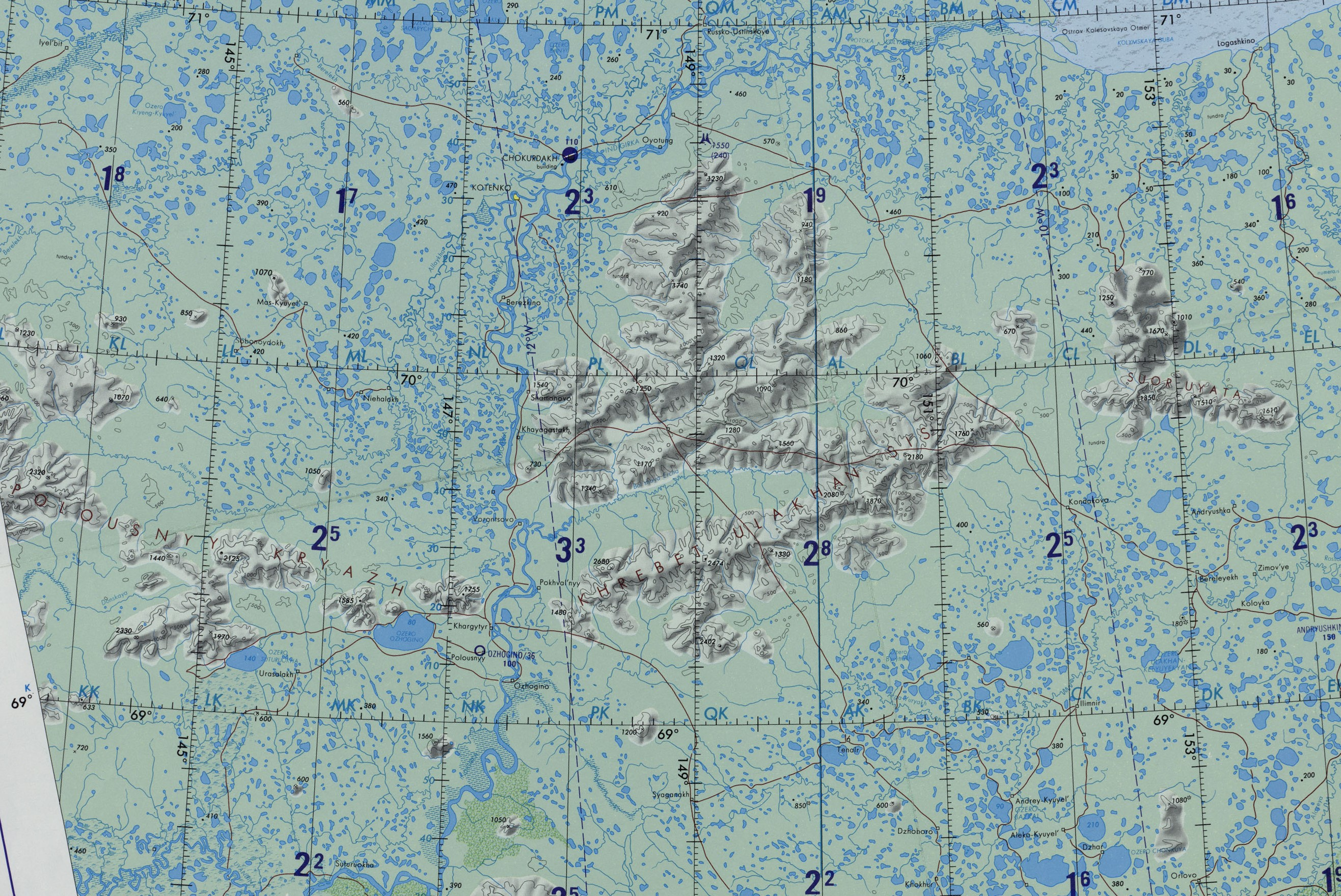 Map section showing the Ulakhan-Sis Range in the middle and the eastern end of the Polousny Range on the left. Sakha (Yakutia) Russia